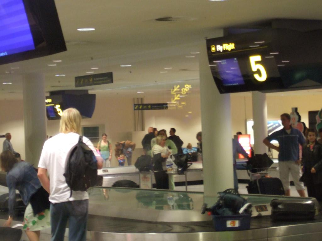 Baggage Claim at Copenhagen Airport